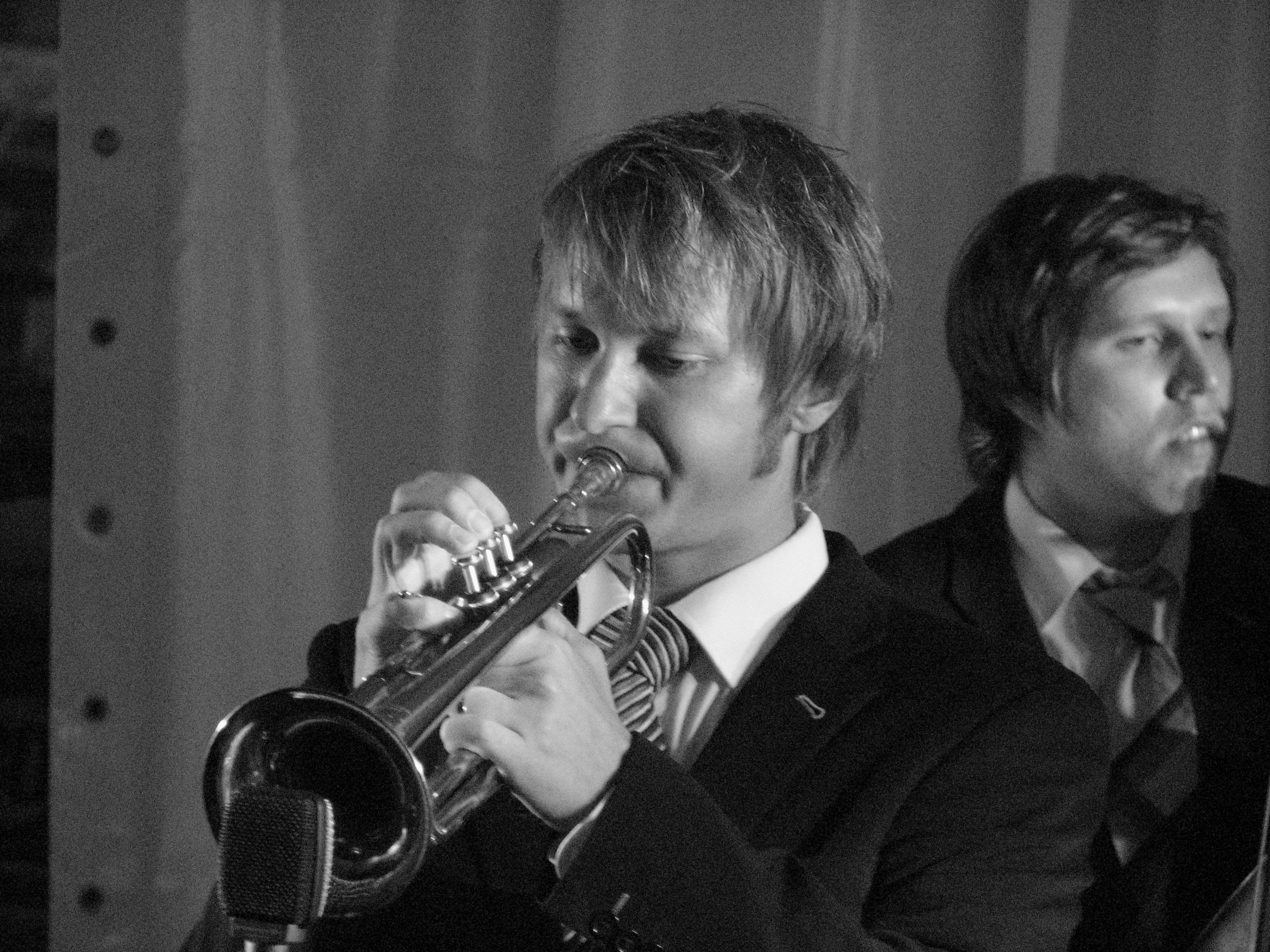 Jukka Eskola and Antti Lötjönen, of The Five Corners Quintet, performing at Flow Festivan 2007